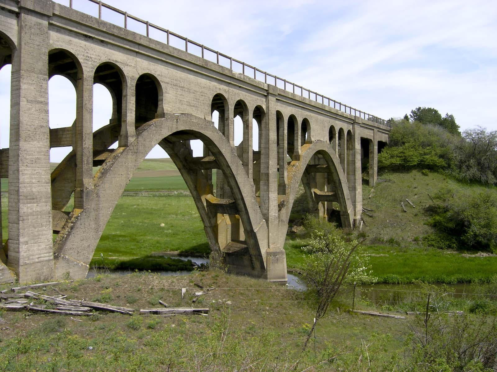 Western of the two concrete-arch Milwaukee Road railroad bridges at Rosalia, Washington